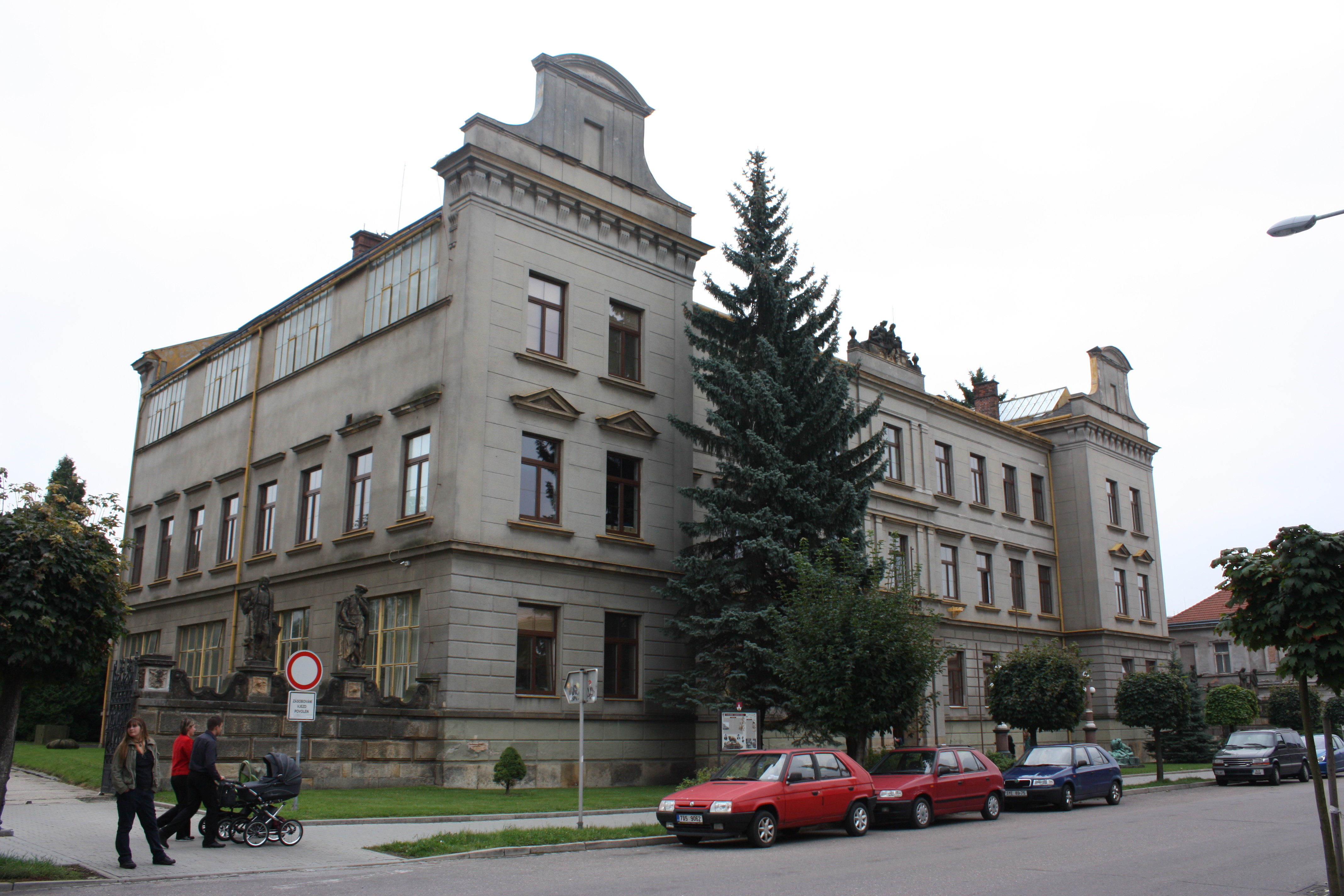 High school in Hořice (Hradec Králové Region)